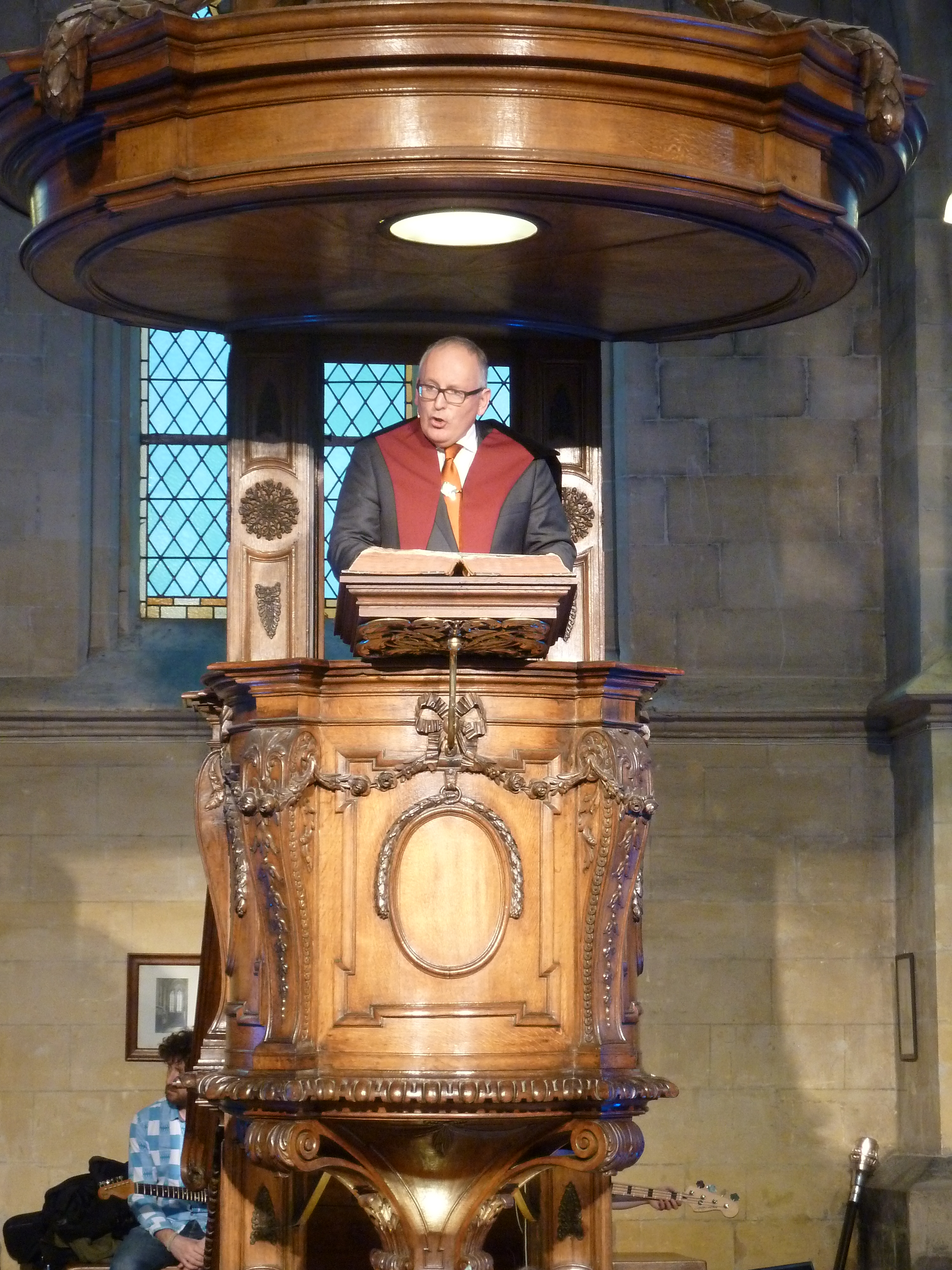 39th Dies Natalis of Maastricht University